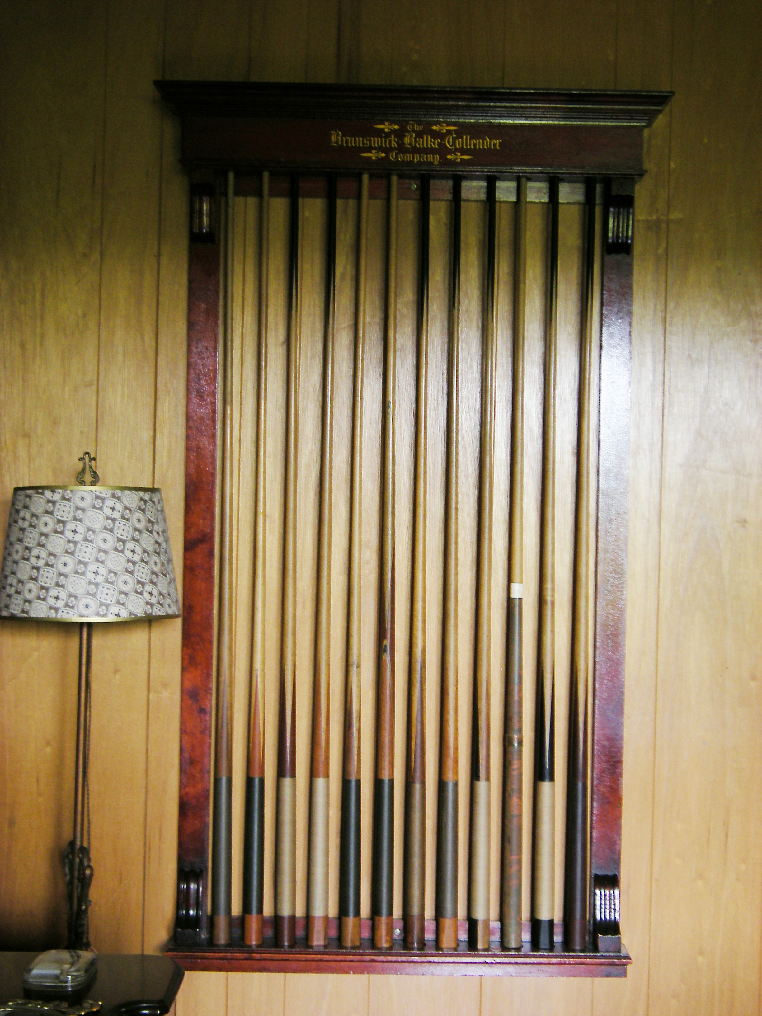 Old pool (billiard) cues, Nelsen Family Residence, Tukwila, Washington.